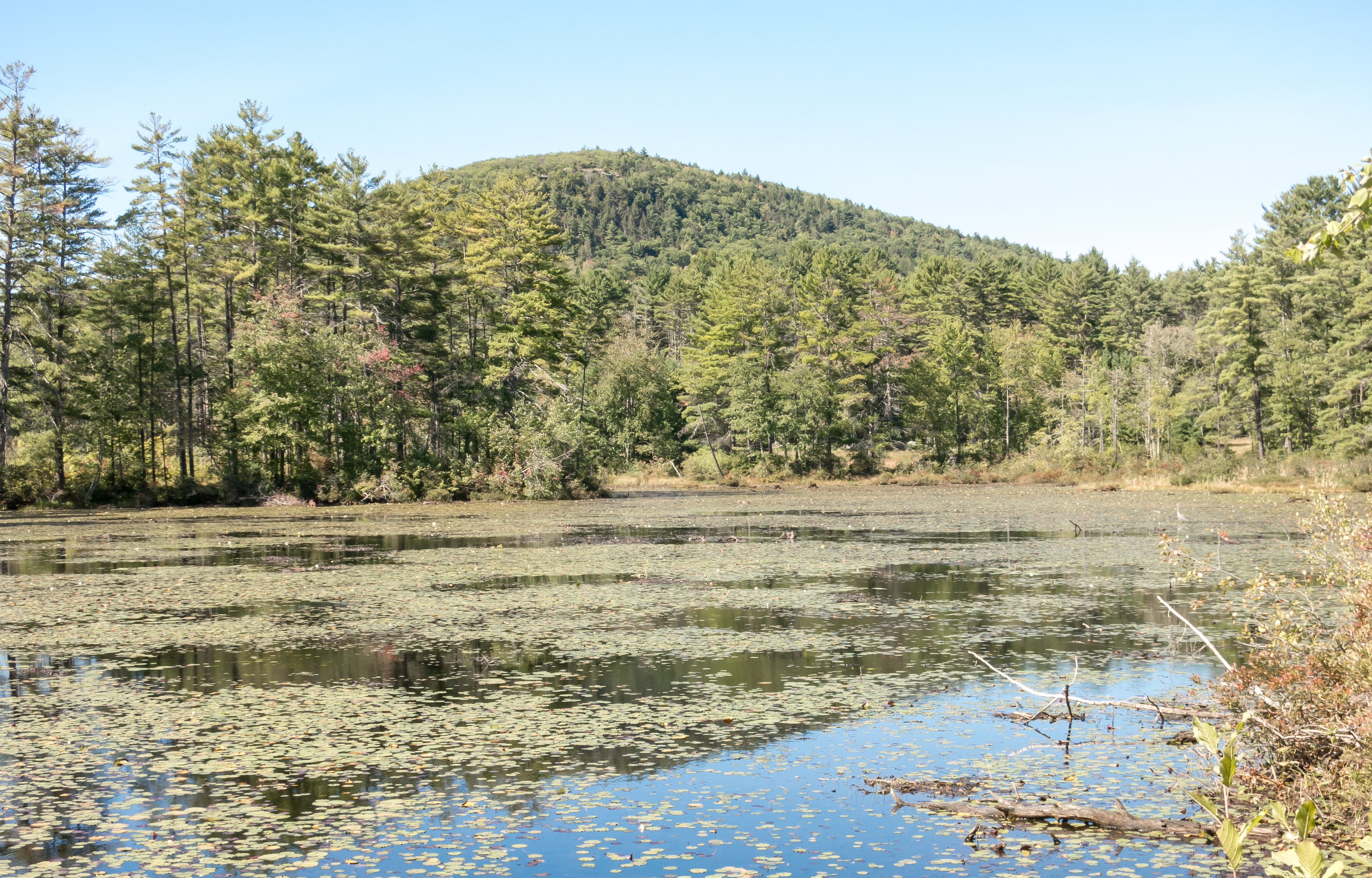 View from Tully Pond causeway